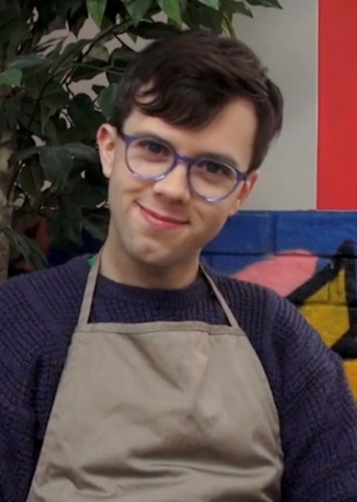 American comedian and actor Cole Escola in 2014.